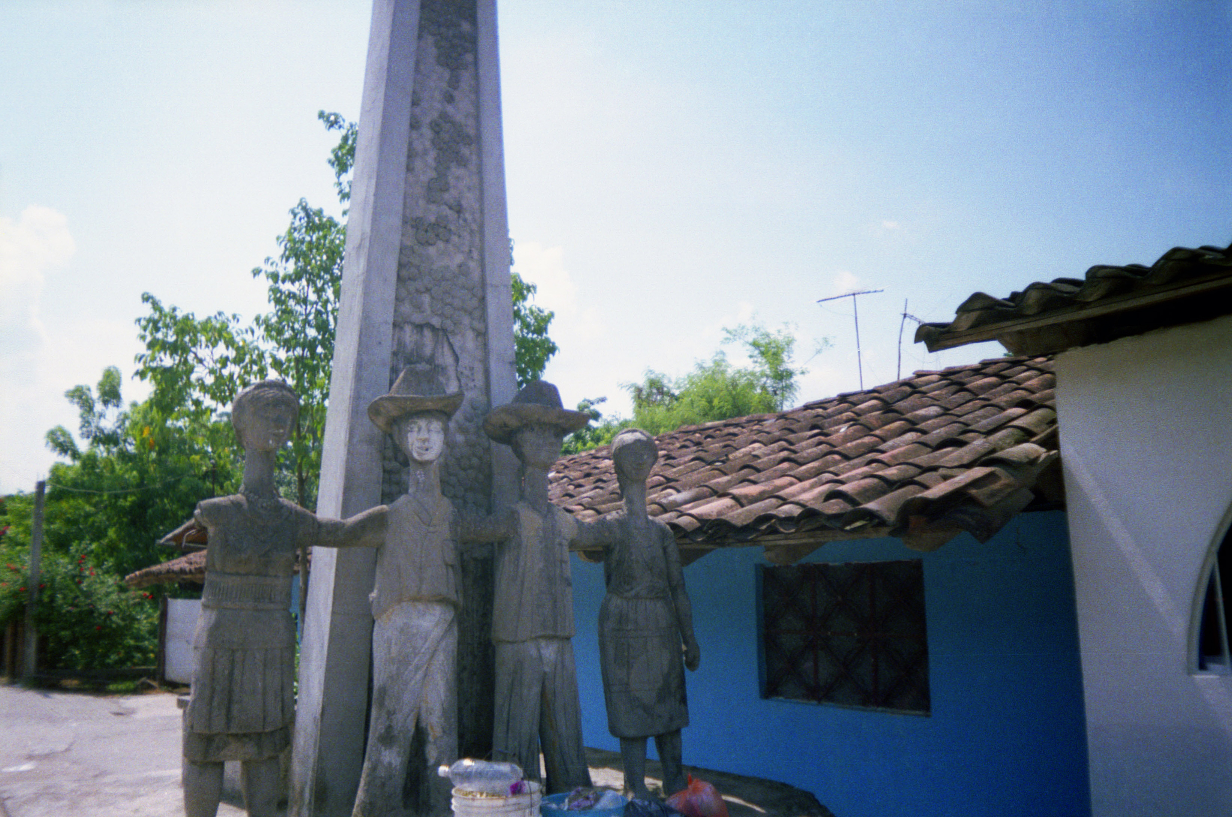 Statue figures at the entrance to Coyutla, Veracruz, Mexico